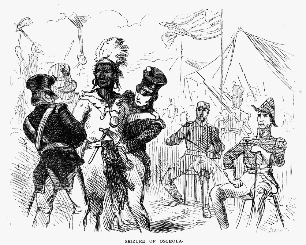 Wood engraving depicts capture of Seminole leader Osceola near Fort Peyton by US troops on October 21, 1837